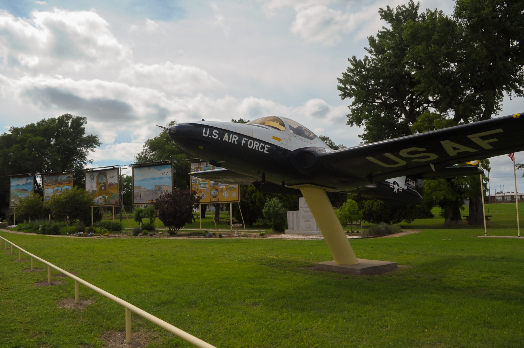 Photo of T37-B Tweet (serial # 56-3563) on display at Jet Lions Memorial Park, Jet, Okla, Sunday, May 31 2015. By Brody Schmidt